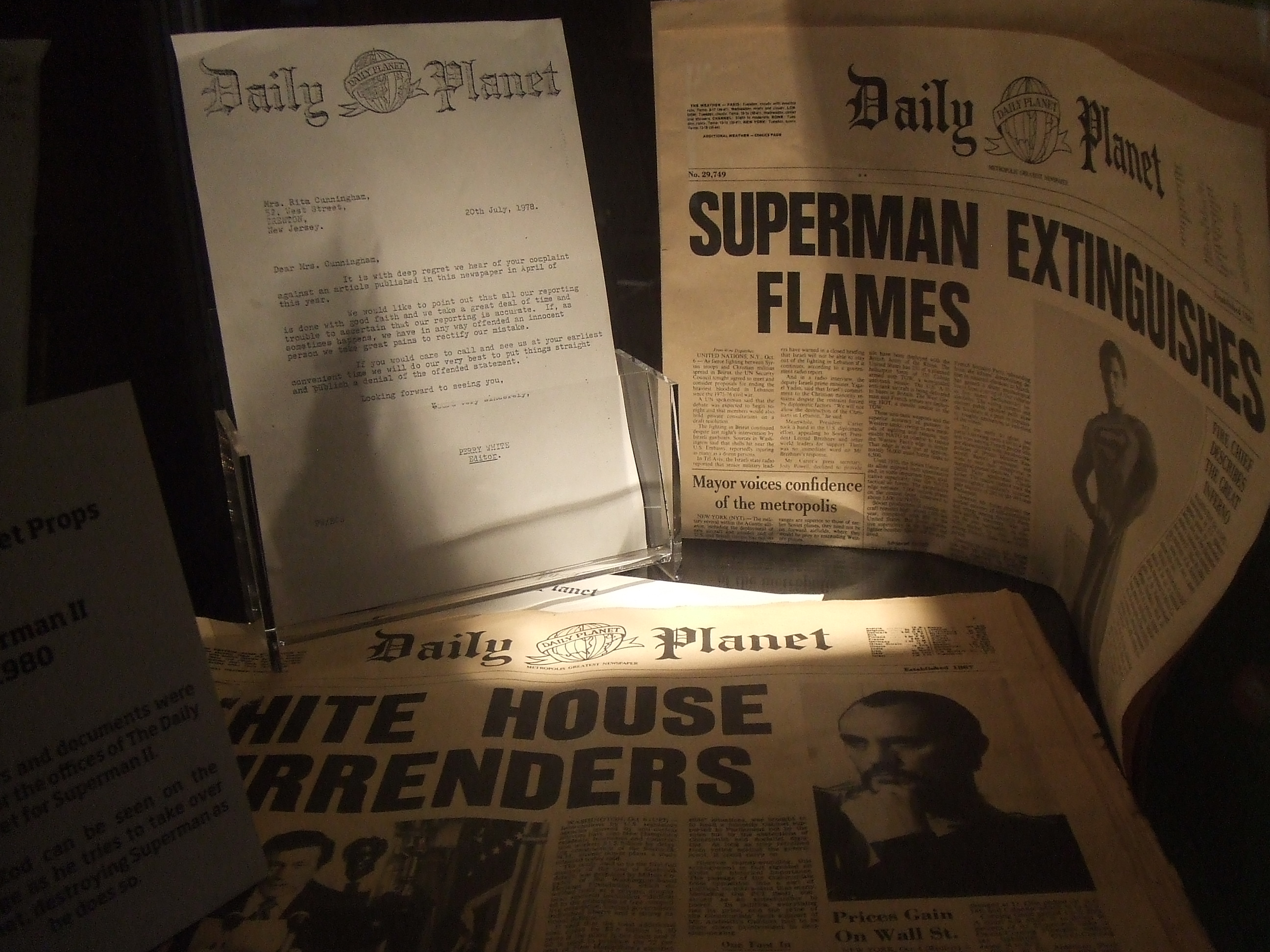 The fictional newspaper Daily Planet from Superman film series displayed at the London Film Museum. Superman extinguishes flames White House Surrenders from the film Superman II